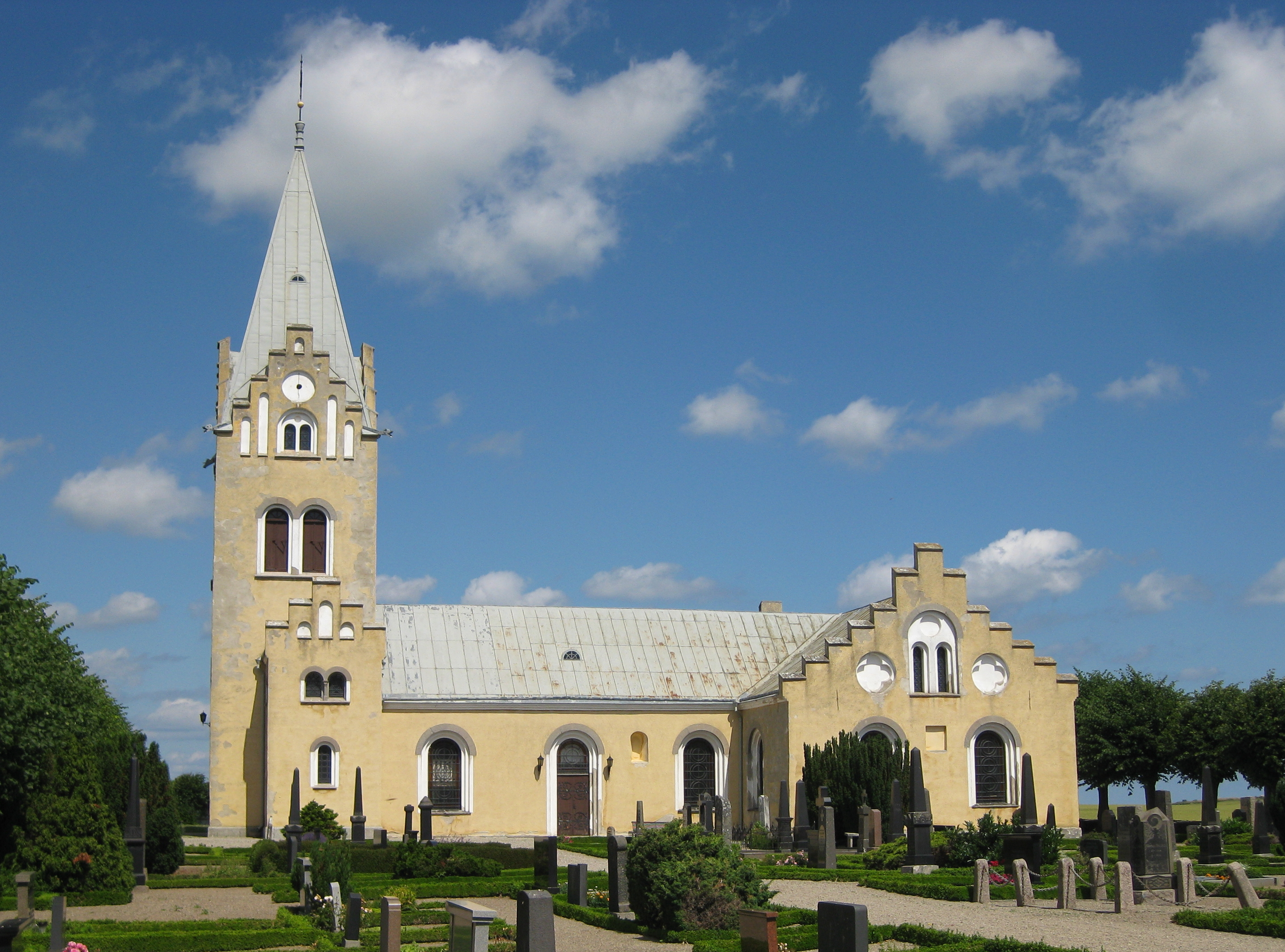 Östra Nöbbelöv church in Scania, Sweden